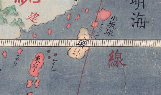 Tungning Kingdom in Kunyu Wanguo Quantu